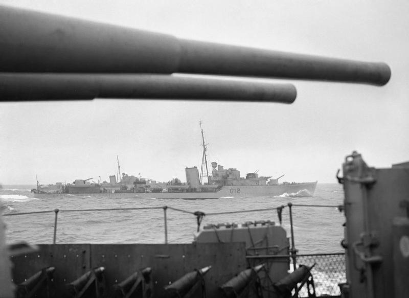 British destroyer HMS KASHMIR.